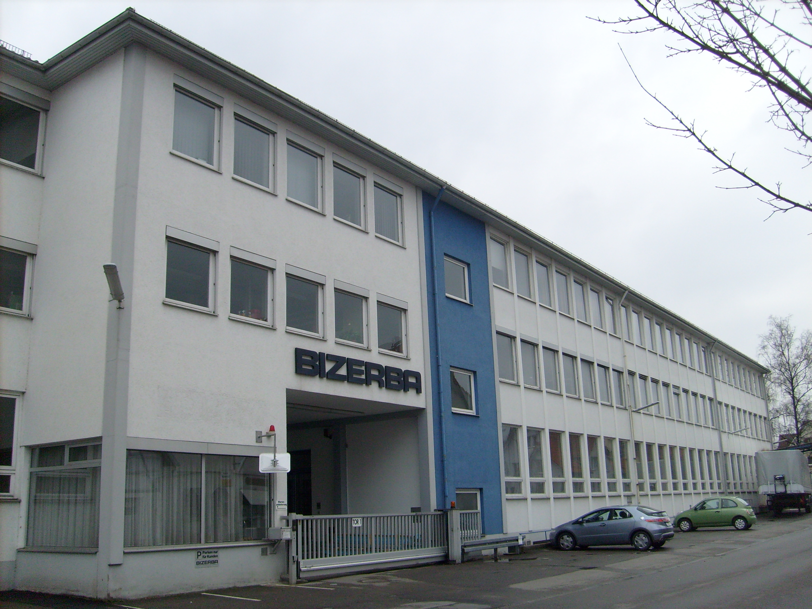 Bizerba: production facility in Meßkirch, Germany.